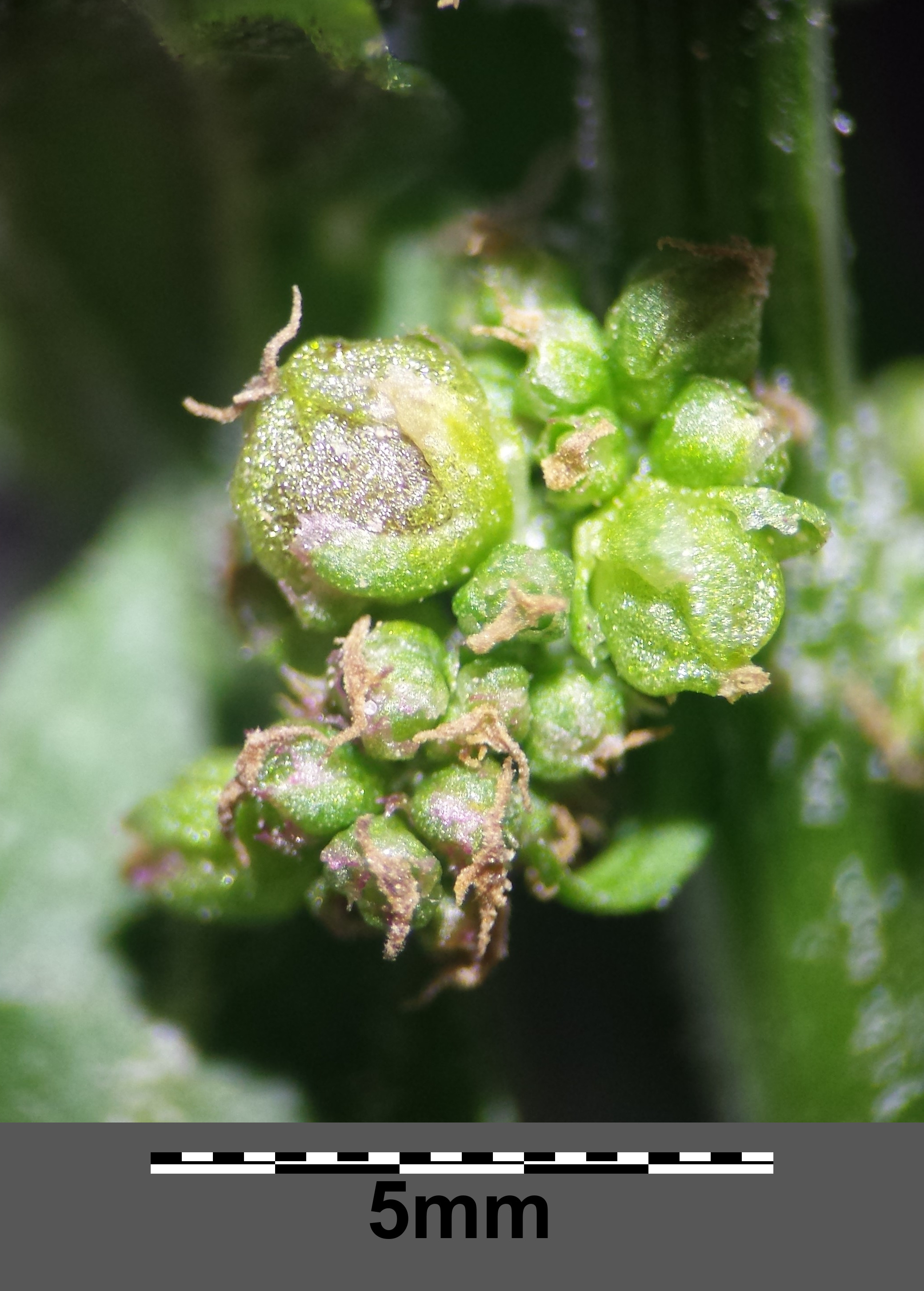 Inflorescence Taxonym: Chenopodium bonus-henricus ss Fischer et al. EfÖLS 2008 ISBN 978-3-85474-187-9 Location: grain storage building next to Ernstbrunn castle, district Korneuburg, Lower Austria - ca. 370 m a.s.l. Habitat: meadows